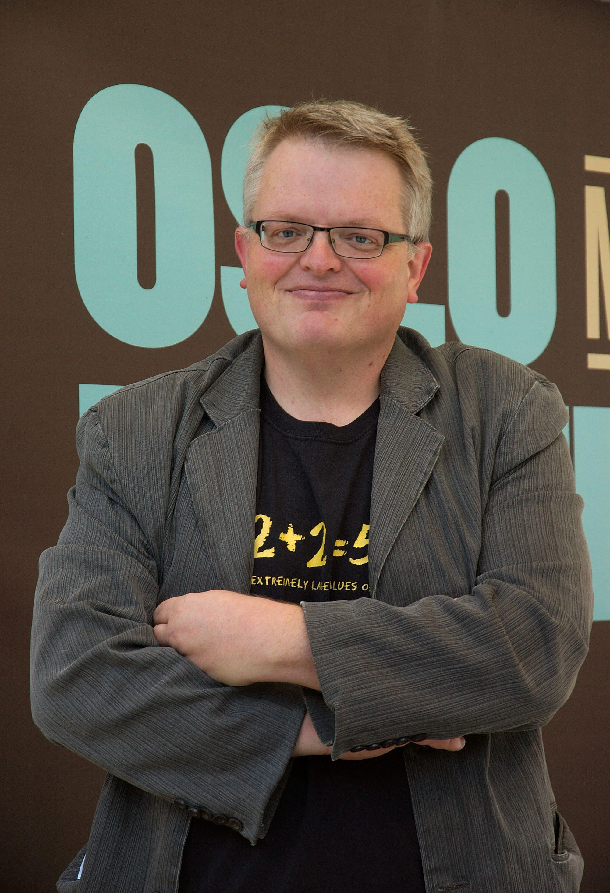 Norwegian writer Eirik Newth.